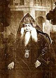 Armenian Catholicos Gevorg IV Kerestedjian.